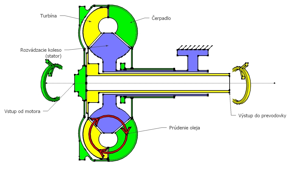 simple torque converter without lock-up clutch